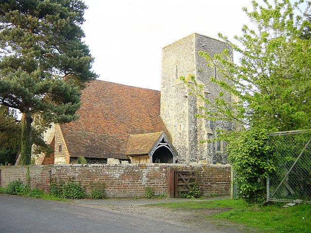 Church of St. Giles, Tonge. Standing near the southern edge of the square this large church would seem to serve a very small community.